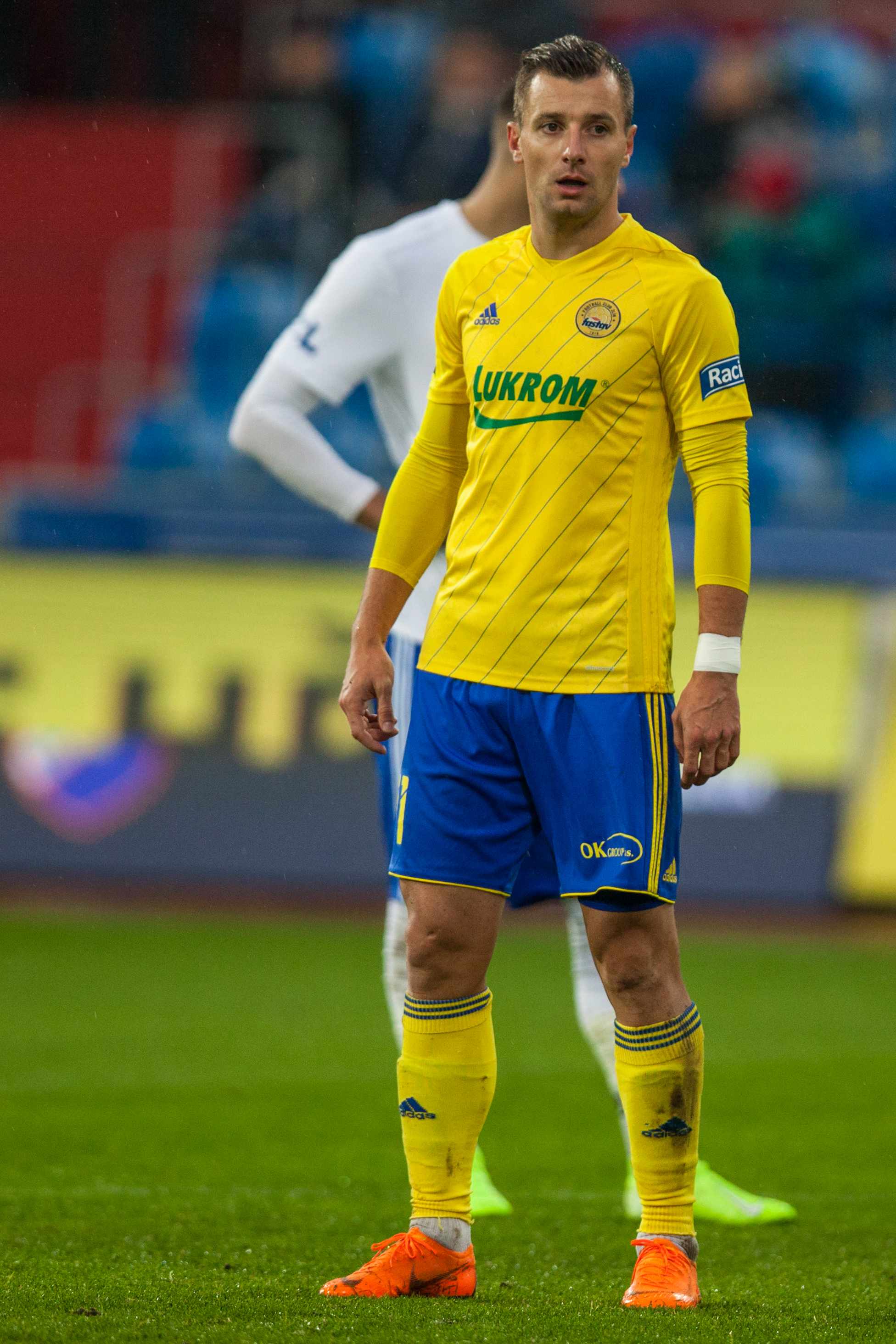 Adnan Džafič in a Czech First League (Fortuna:Liga) match between FC Baník Ostrava and FC Fastav Zlín (4:0), 5 October 2019, Městský stadion Ostrava, Ostrava-Vítkovice, Ostrava-City District, Moravian-Silesian Region, Czechia Personality rights warningAlthough this work is freely licensed or in the public domain, the person(s) shown may have rights that legally restrict certain re-uses unless those depicted consent to such uses. In these cases, a model release or other evidence of consent could protect you from infringement claims.